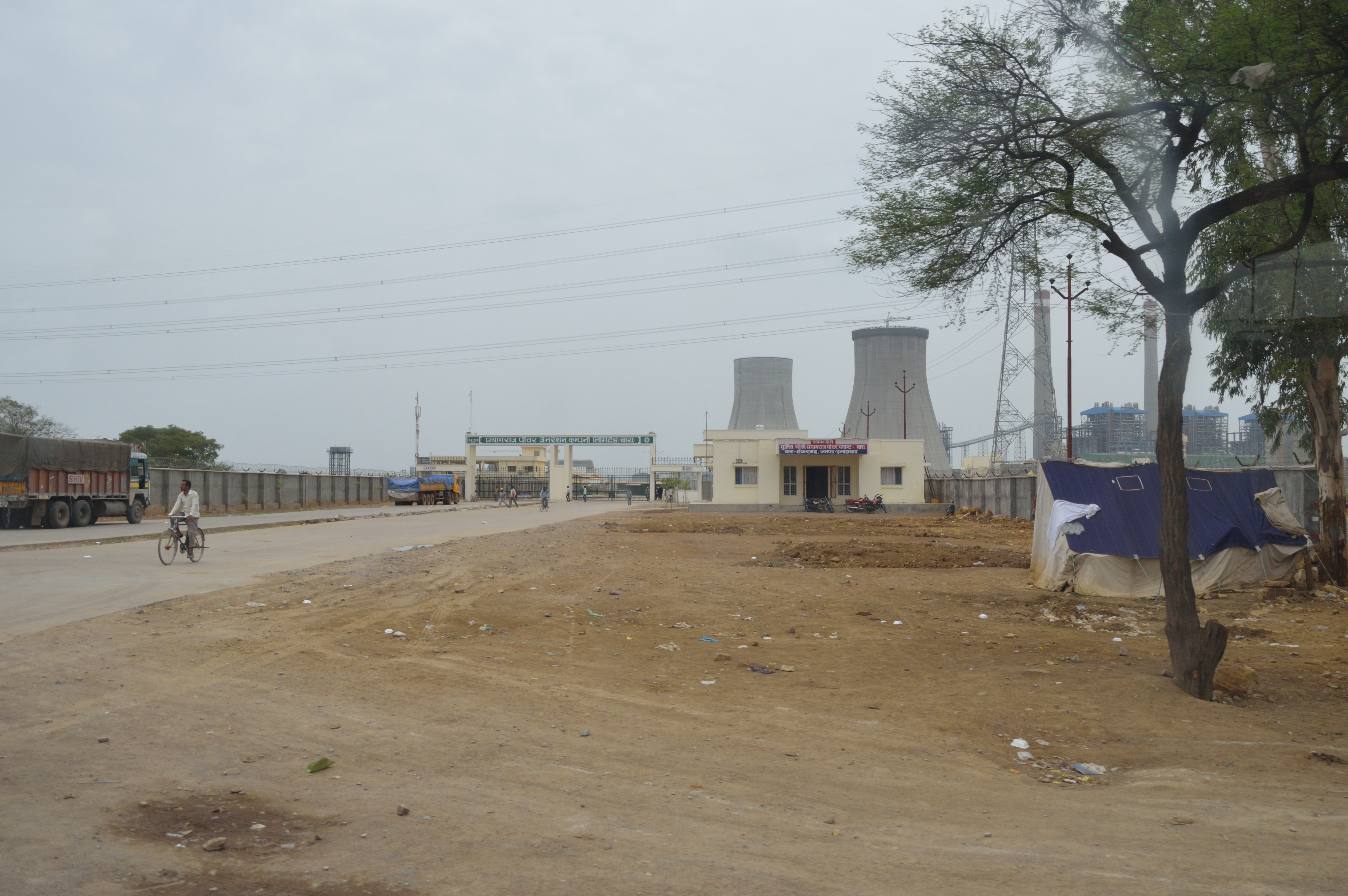 Photographed in Uttar Pradesh (UP), India.